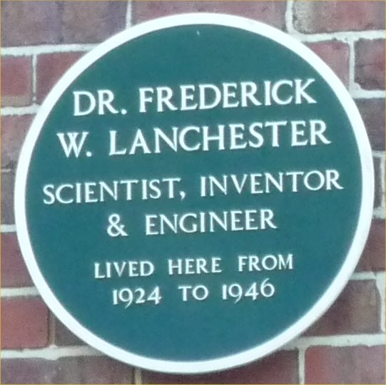 Green plaque to Frederick William Lanchester on his home in Oxford Road, Birmingham, England.